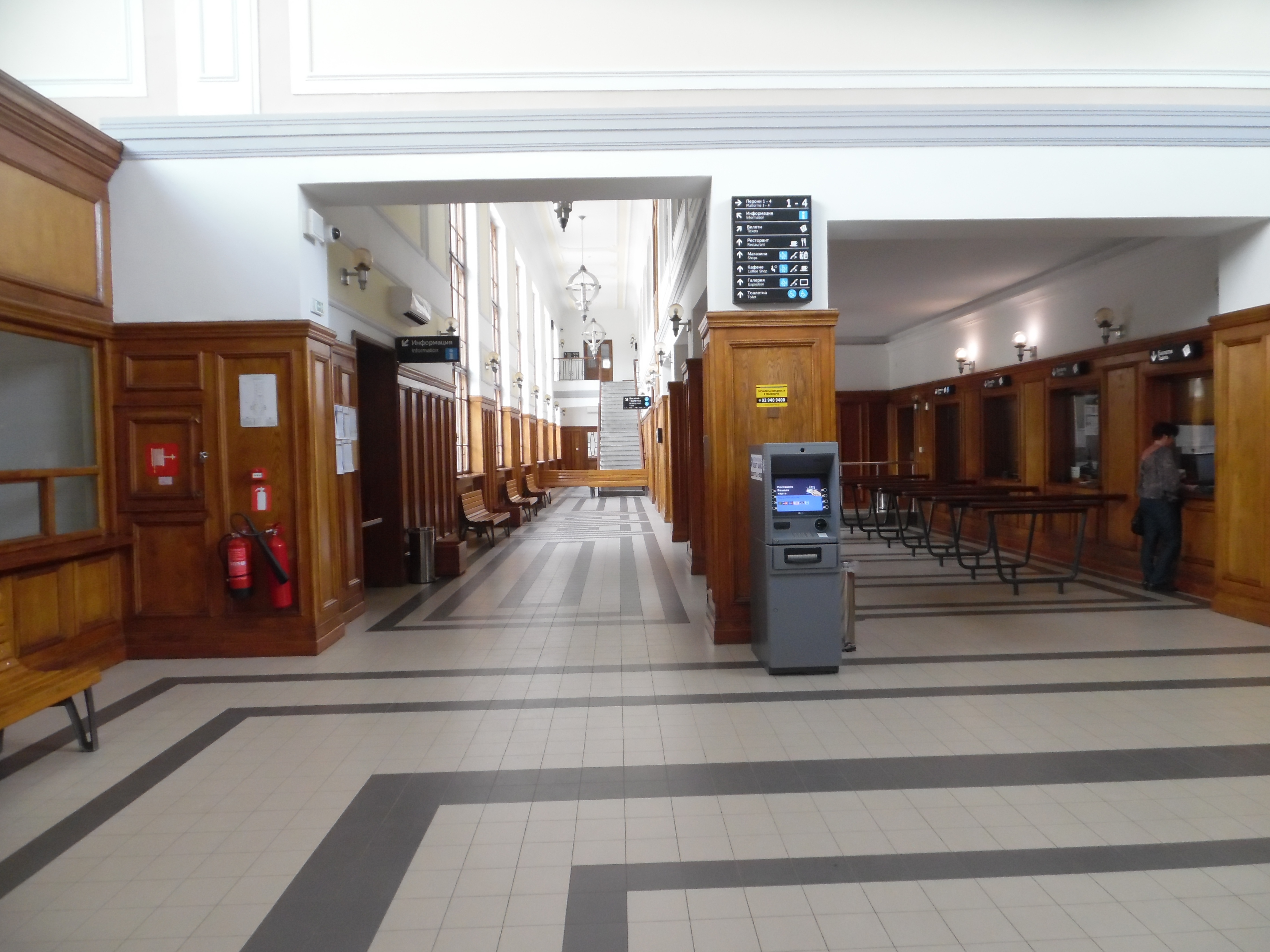 Burgas, the interior of central railway station